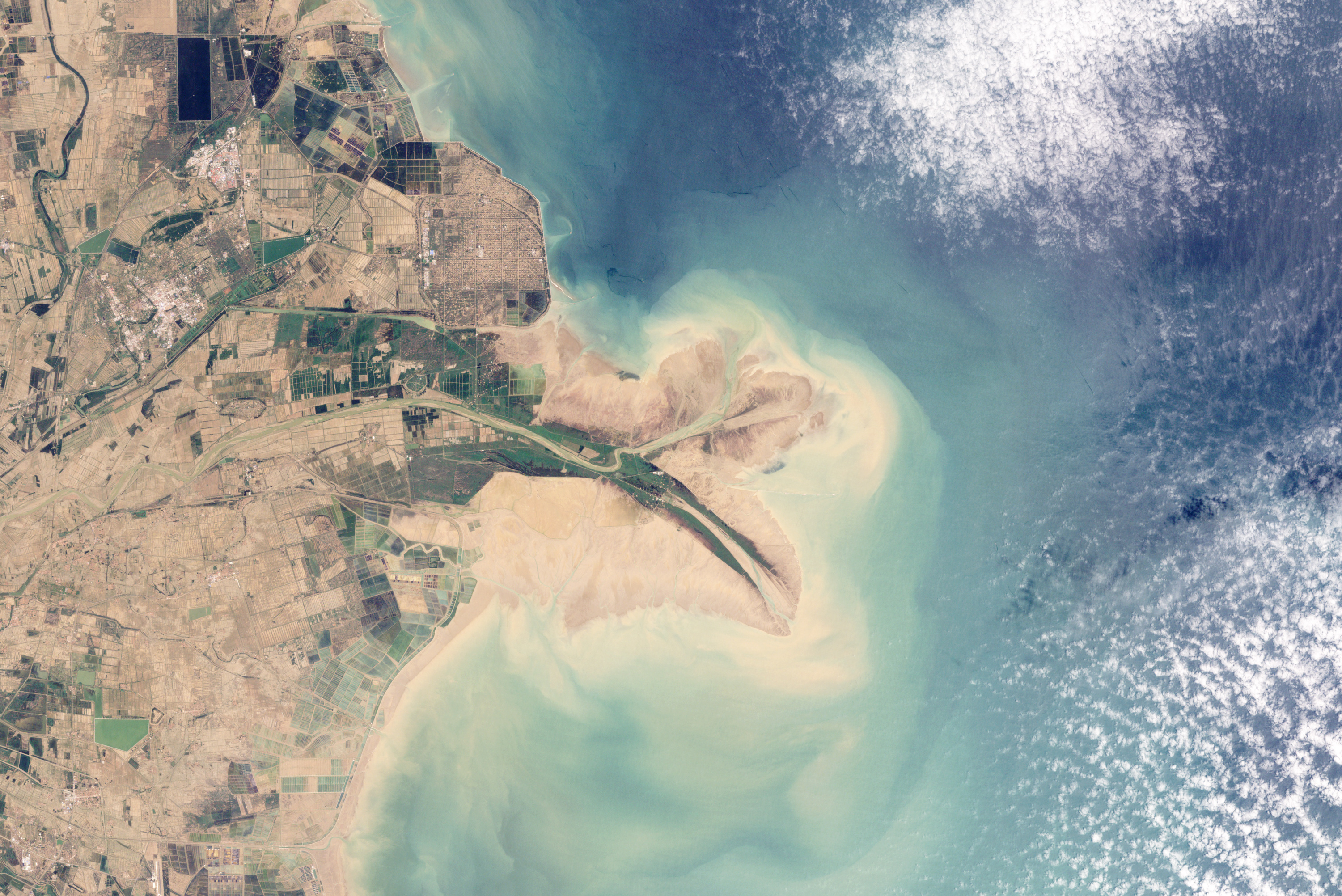 China’s Huang He (Yellow River) is the most sediment-filled river on Earth. Flowing northeast to the Bo Hai Sea from the Bayan Har Mountains, the Yellow River crosses a plateau blanketed with up to 300 meters (980 feet) of fine, wind-blown soil. The soil is easily eroded, and millions of tons of it are carried away by the river every year. Some of it reaches the river’s mouth, where it builds and rebuilds the delta. The Yellow River Delta has wandered up and down several hundred kilometers of coastline over the past two thousand years. Since the mid-nineteenth century, however, the lower reaches of the river and the delta have been extensively engineered to control flooding and to protect coastal development. This sequence of natural-color images from NASA's Landsat satellites shows the delta near the present river mouth at five-year intervals from 1989 to 2009.